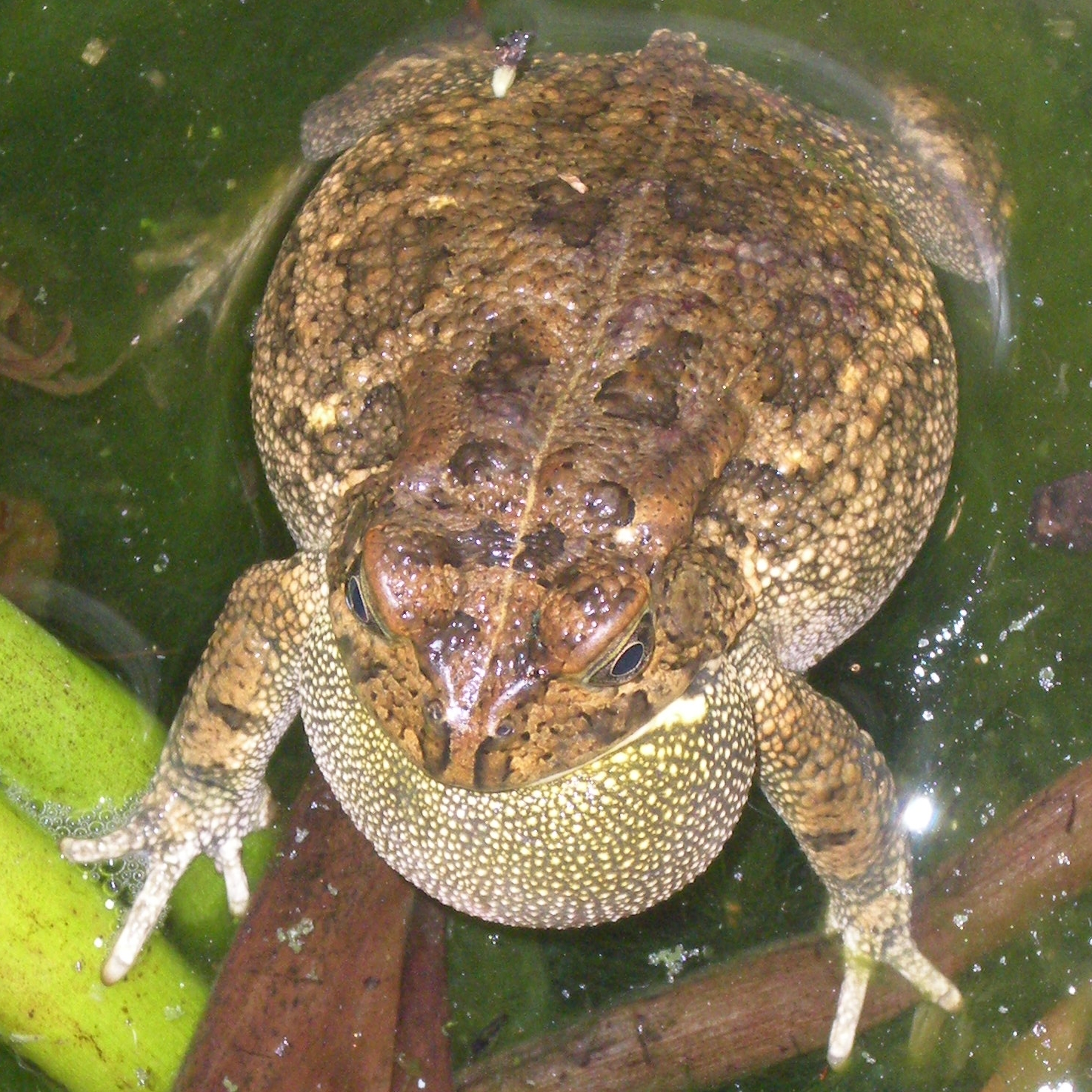 Amietophrynus gutturalis (Guttural Toad / African Common Toad) calling.